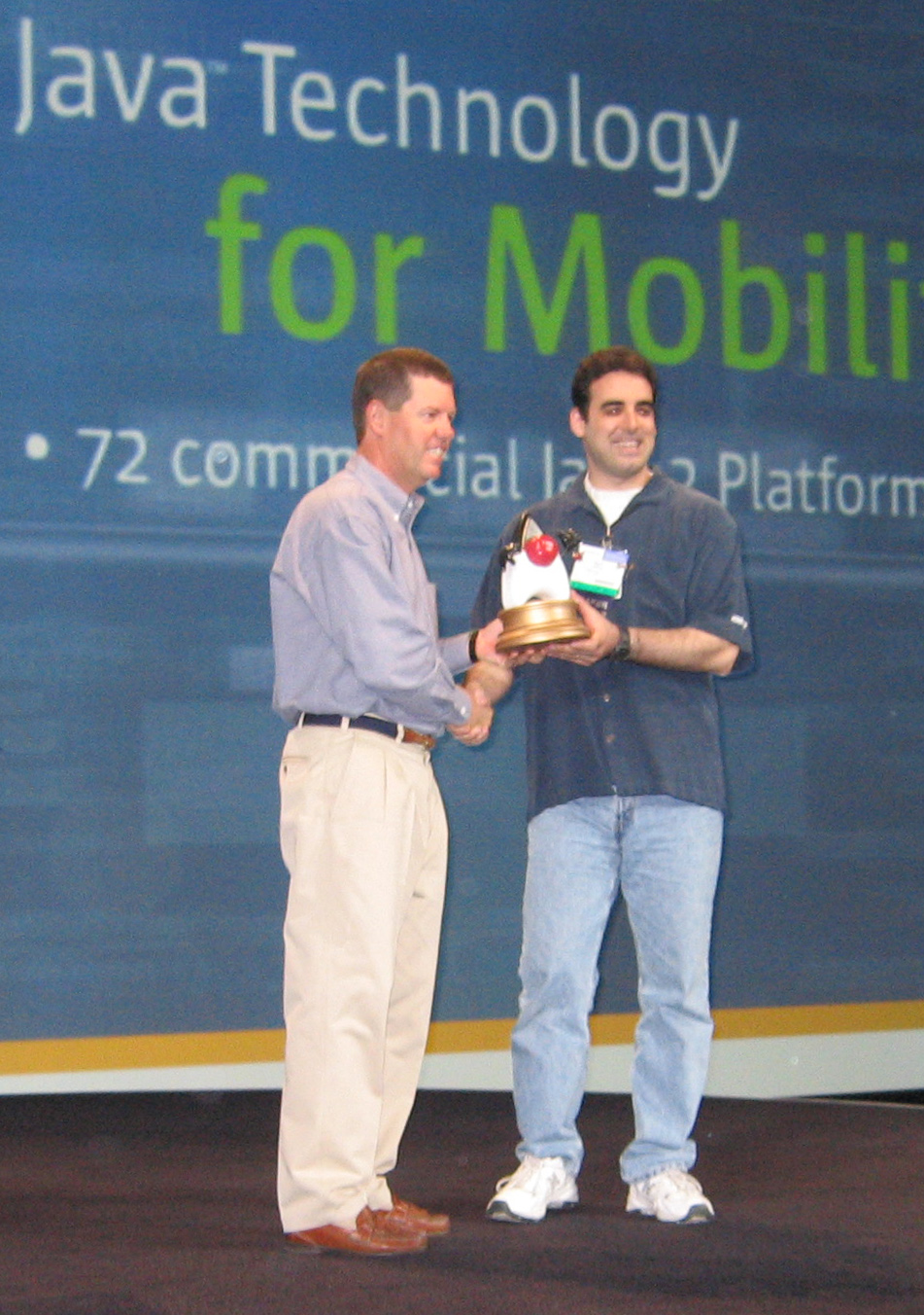 Duke's Choice Award, JavaOne 2004. Scott McNealy presents an award to Steve Hoffman of .